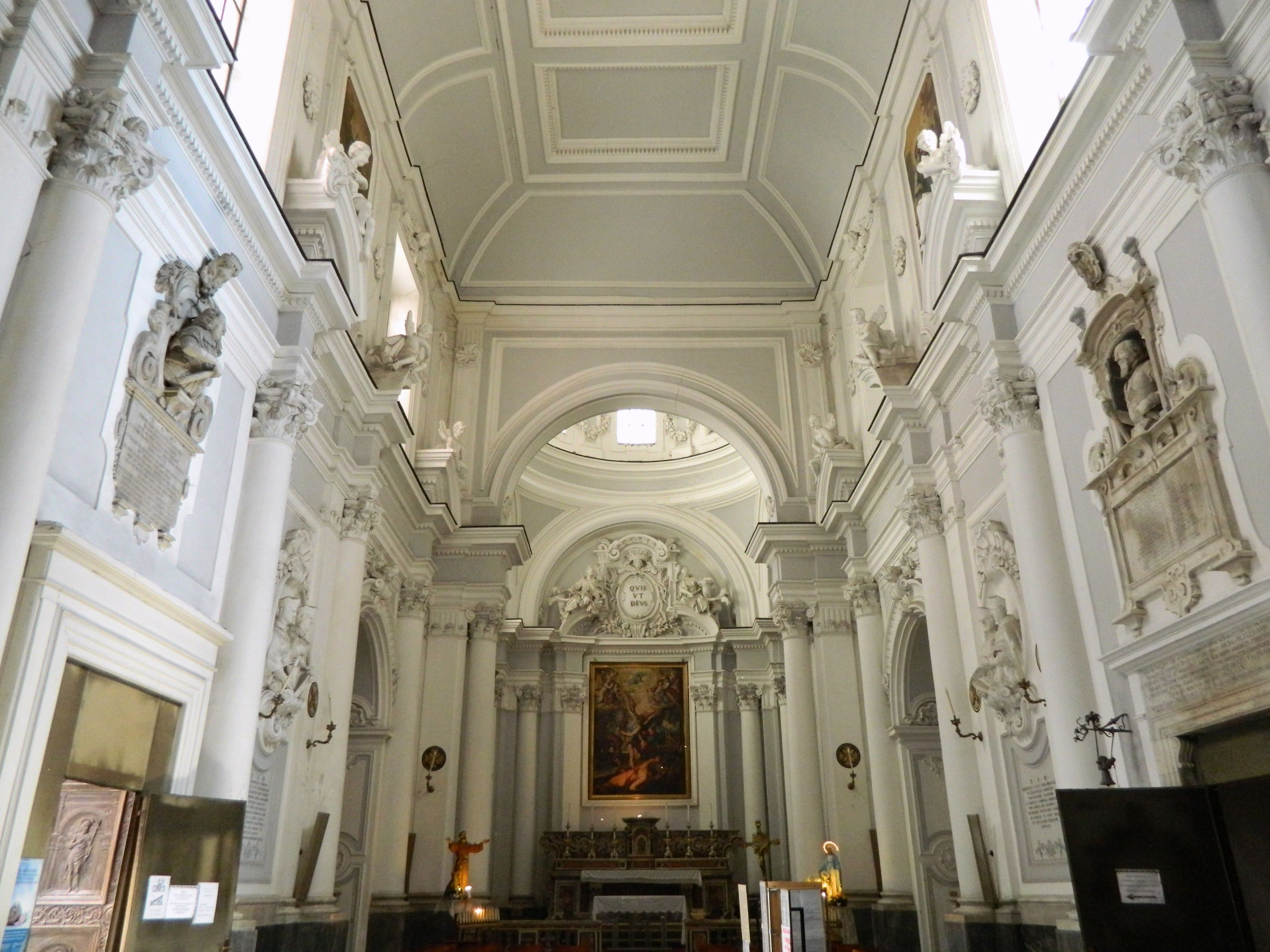 Chiesa di Sant'Angelo a Nilo (Napoli)